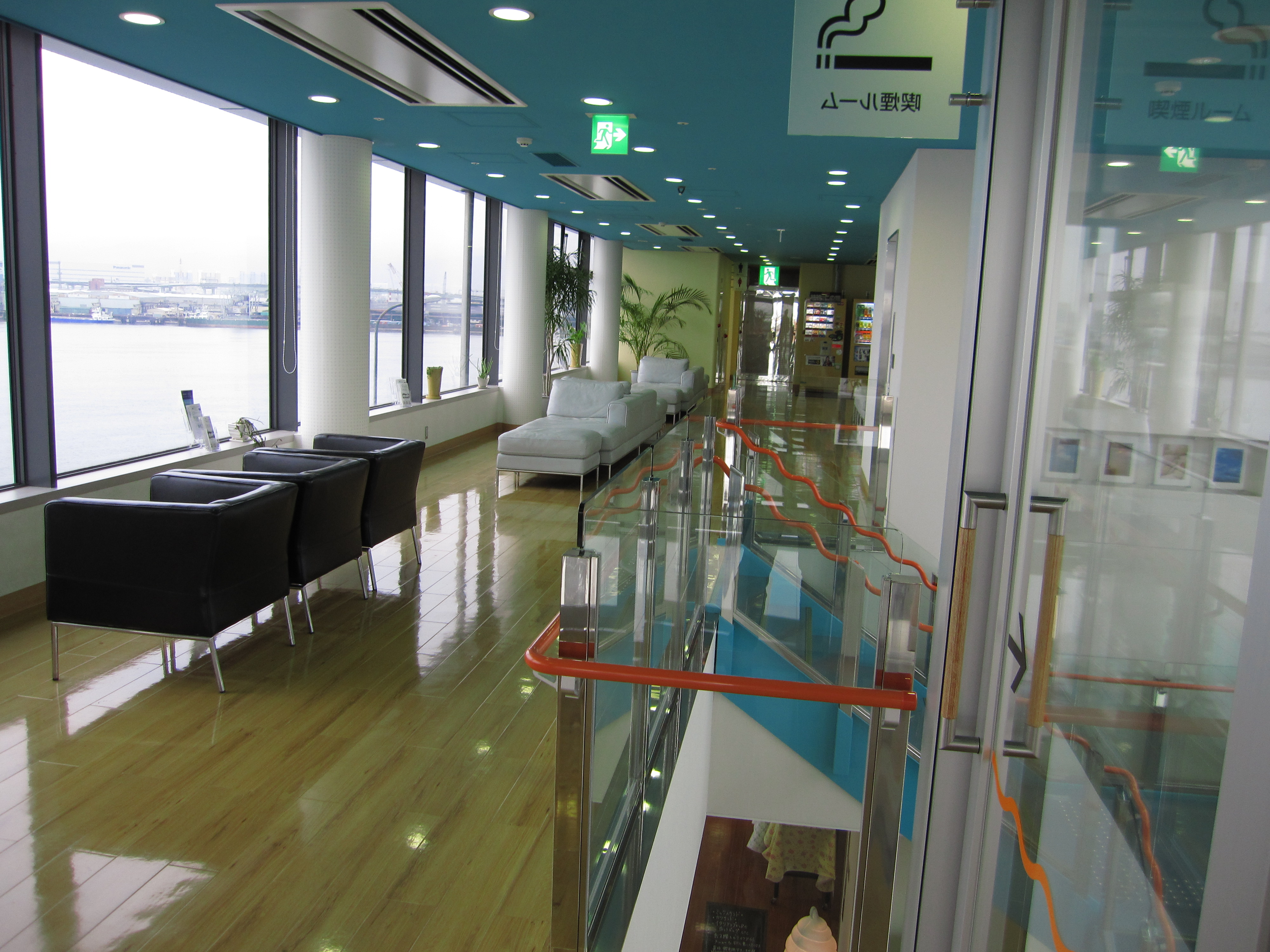 Rest space on the second floor at Nakajima Parking Area. Note reversed Japanese text, as well as its correctly oriented reflection (in the top right corner).